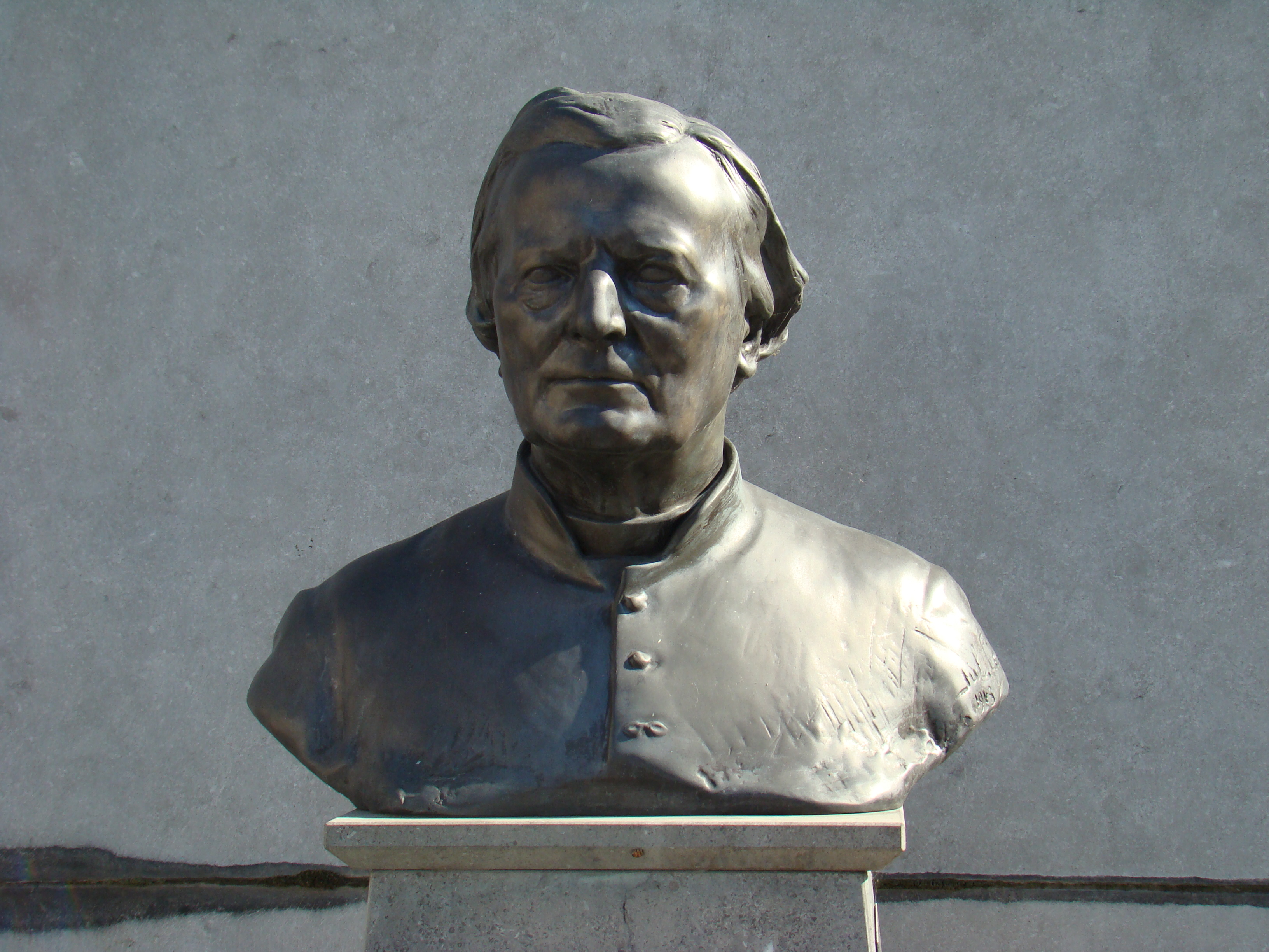 Roeselare (West Flanders, Belgium)